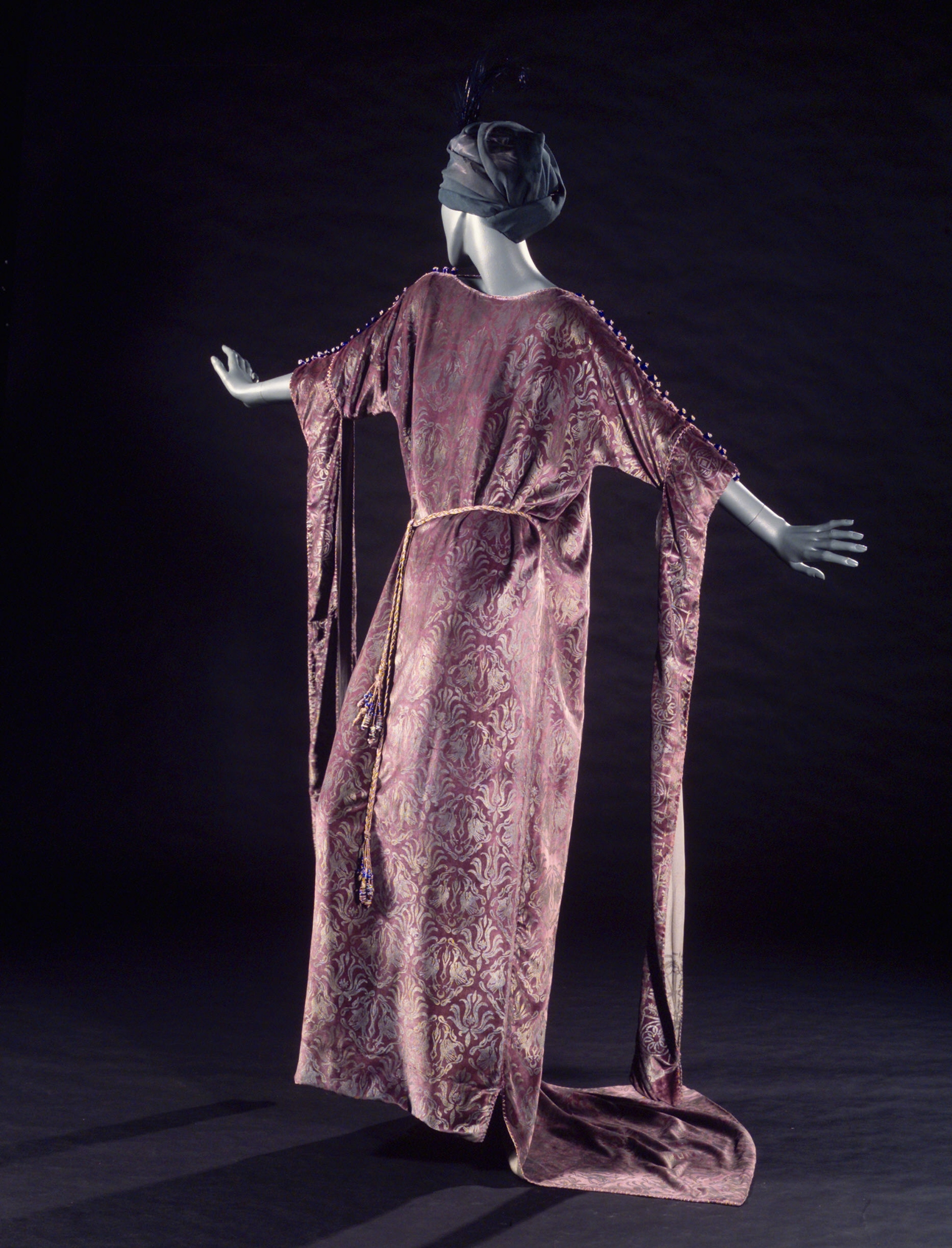 Italian; Evening dress